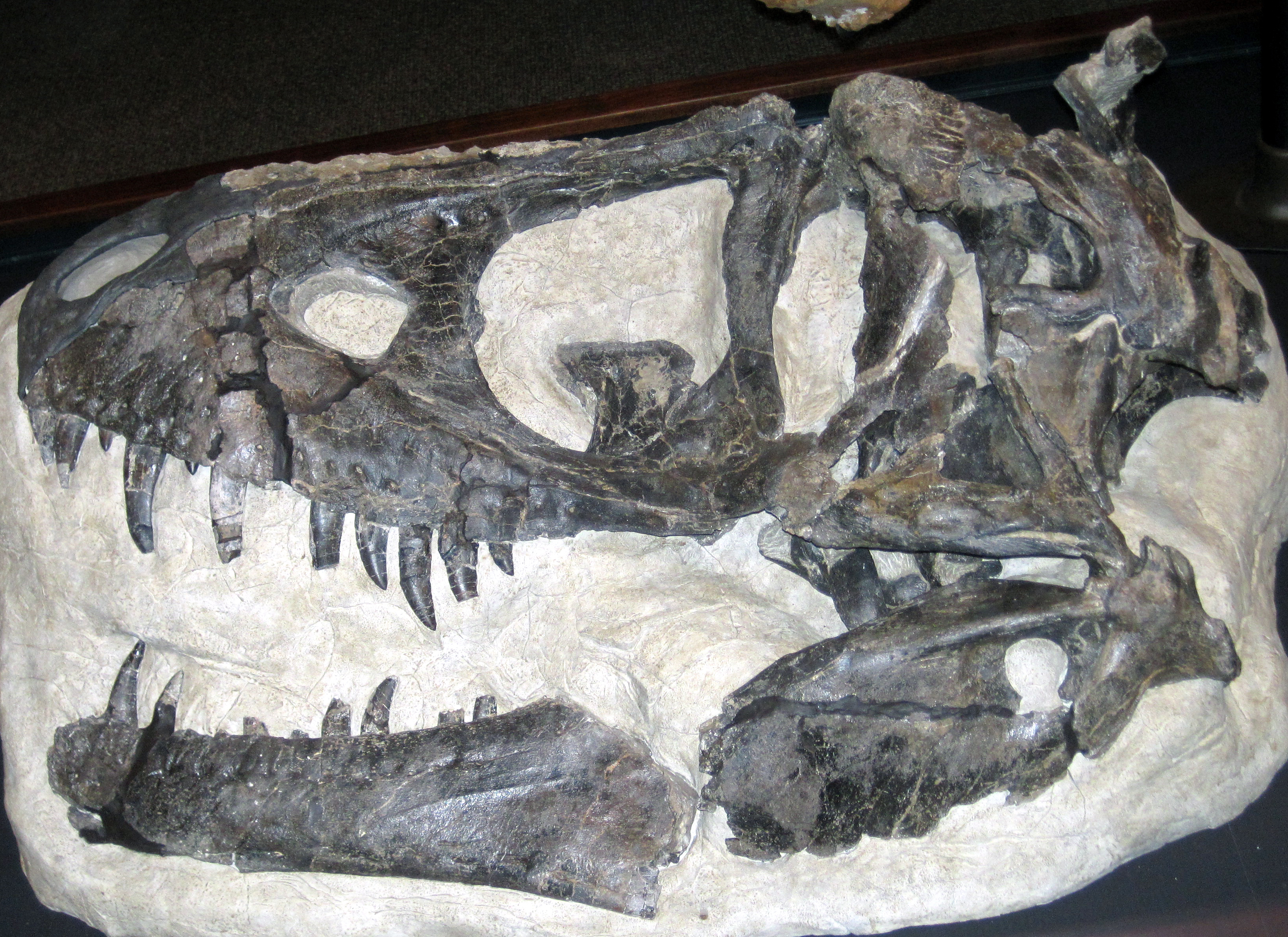 Daspletosaurus horneri theropod dinosaur skull from the Cretaceous of Montana, USA (public display, MOR 590, Museum of the Rockies, Bozeman, Montana, USA). This complete skull has been identified as a new species of Daspletosaurus by Museum of the Rockies researchers. Others often call this a specimen of Daspletosaurus torosus Russell, 1970. Stratigraphy: Two Medicine Formation, Campanian Stage, Upper Cretaceous. Locality: Glacier County, northwestern Montana, USA Theropod were small to large, bipedal dinosaurs. Almost all known members of the group were carnivorous (predators and/or scavengers). They represent the ancestral group to the birds, and some theropods are known to have had feathers. Some of the most well known dinosaurs to the general public are theropods, such as Tyrannosaurus, Allosaurus, and Spinosaurus.